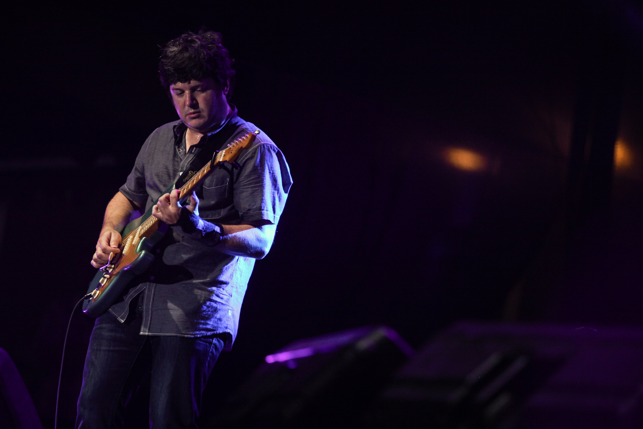 Matt Slocum performing with his band, Sixpence None the Richer, at the Java Rockin'Land in Jakarta, Indonesia, on June 22, 2013.